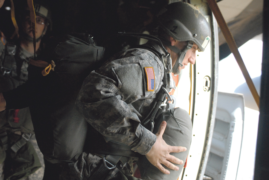 Airborne students exit the aircraft at 1,250 feet above the drop zone. See more at Airborne School graduates first class of T-11 jumpers